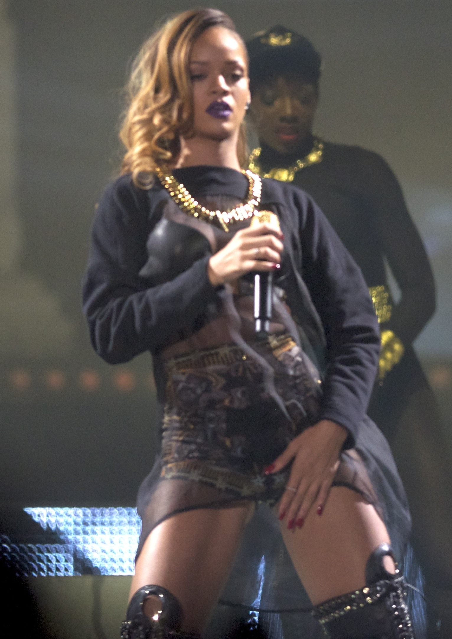 Rihanna performing Diamonds World Tour at the Xcel Energy Center, 24 March 2013.